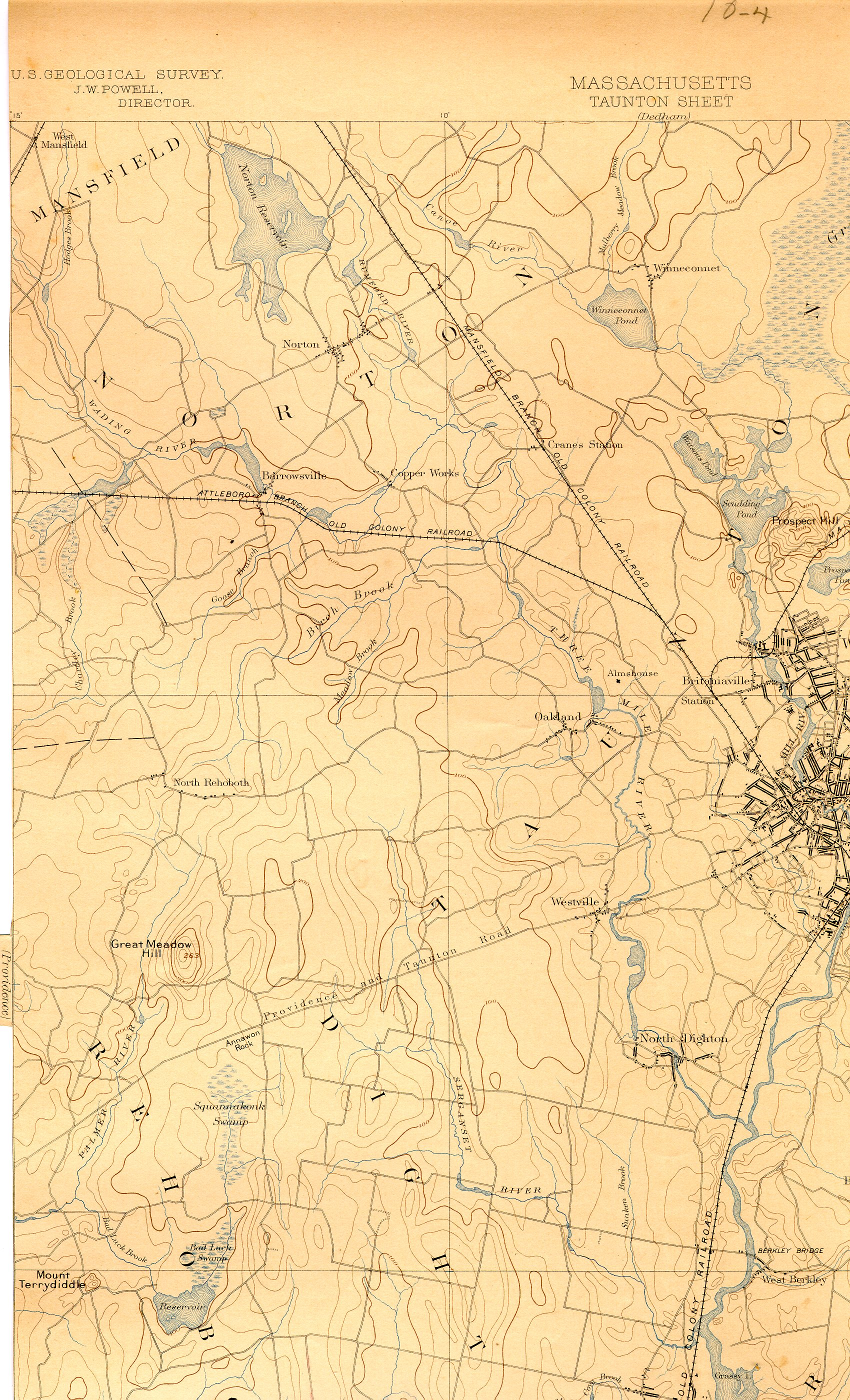 Map of Three Mile River (Massachusetts) and environs.